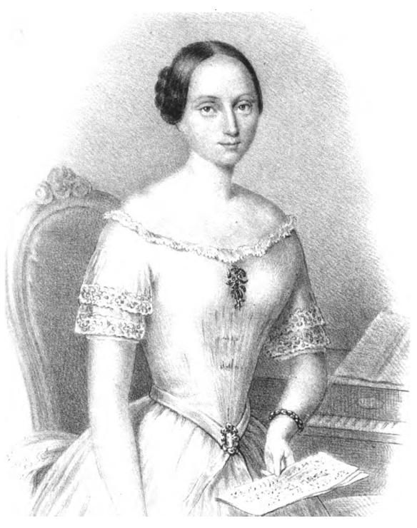 Portrait of Swedish opera singer Mathilde Ebeling from Thalia theater-kalender 1849.